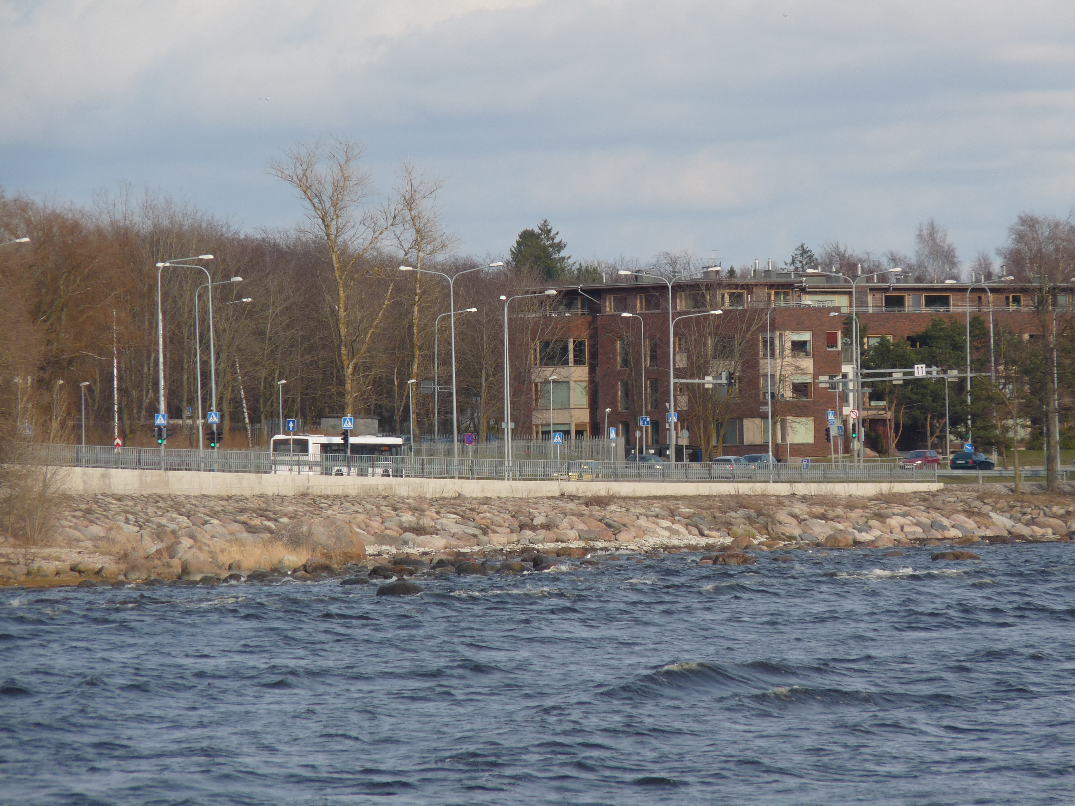 Merivälja quarter in Tallinn.